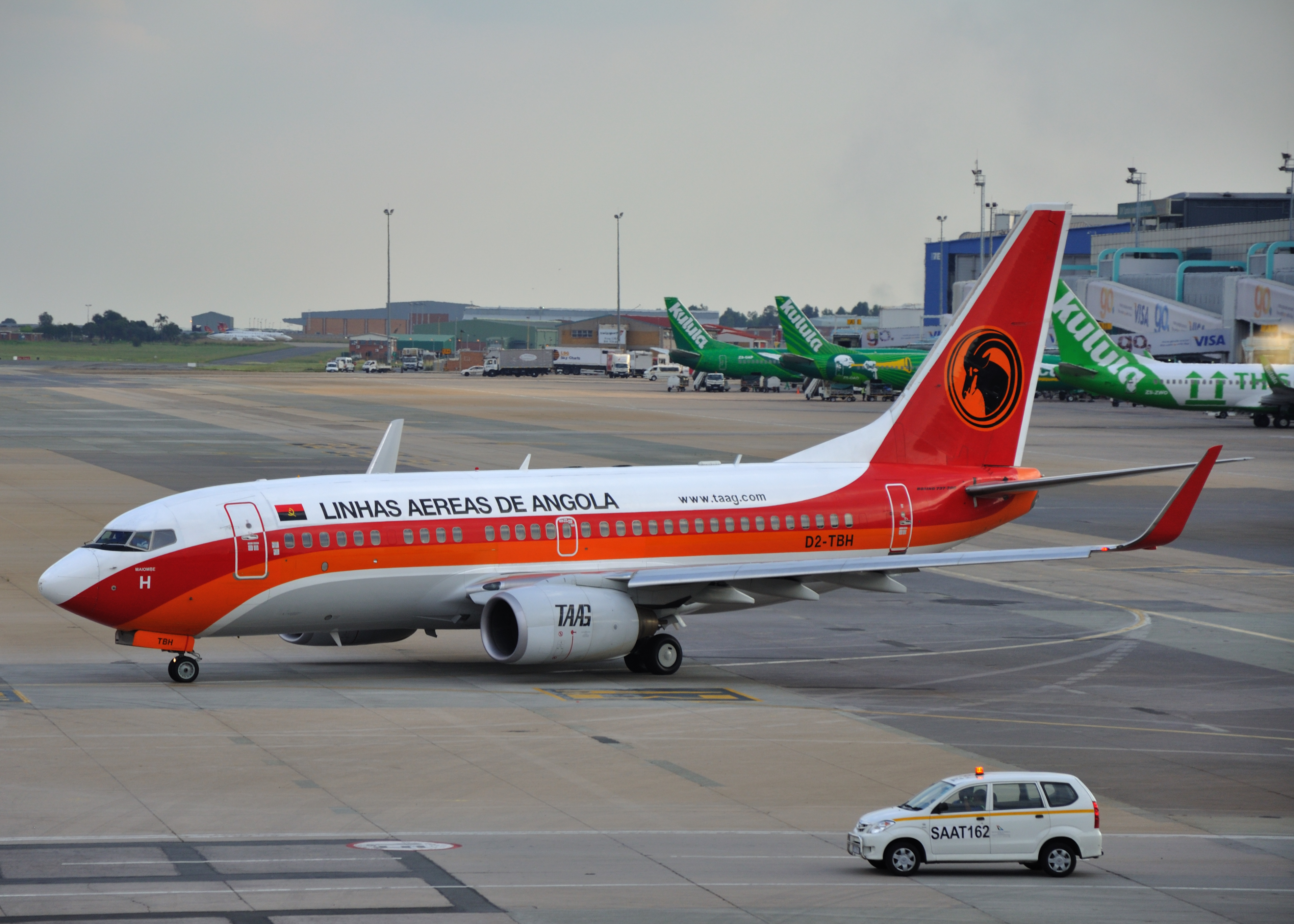 South Africa, spotting at OR Tambo Intl. Airport in Johannesburg